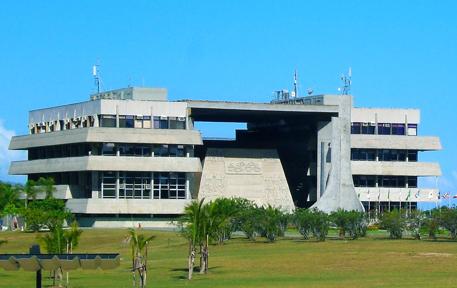 Legislative Assembly of the state of Bahia, in Salvador, Bahia, Brazil.